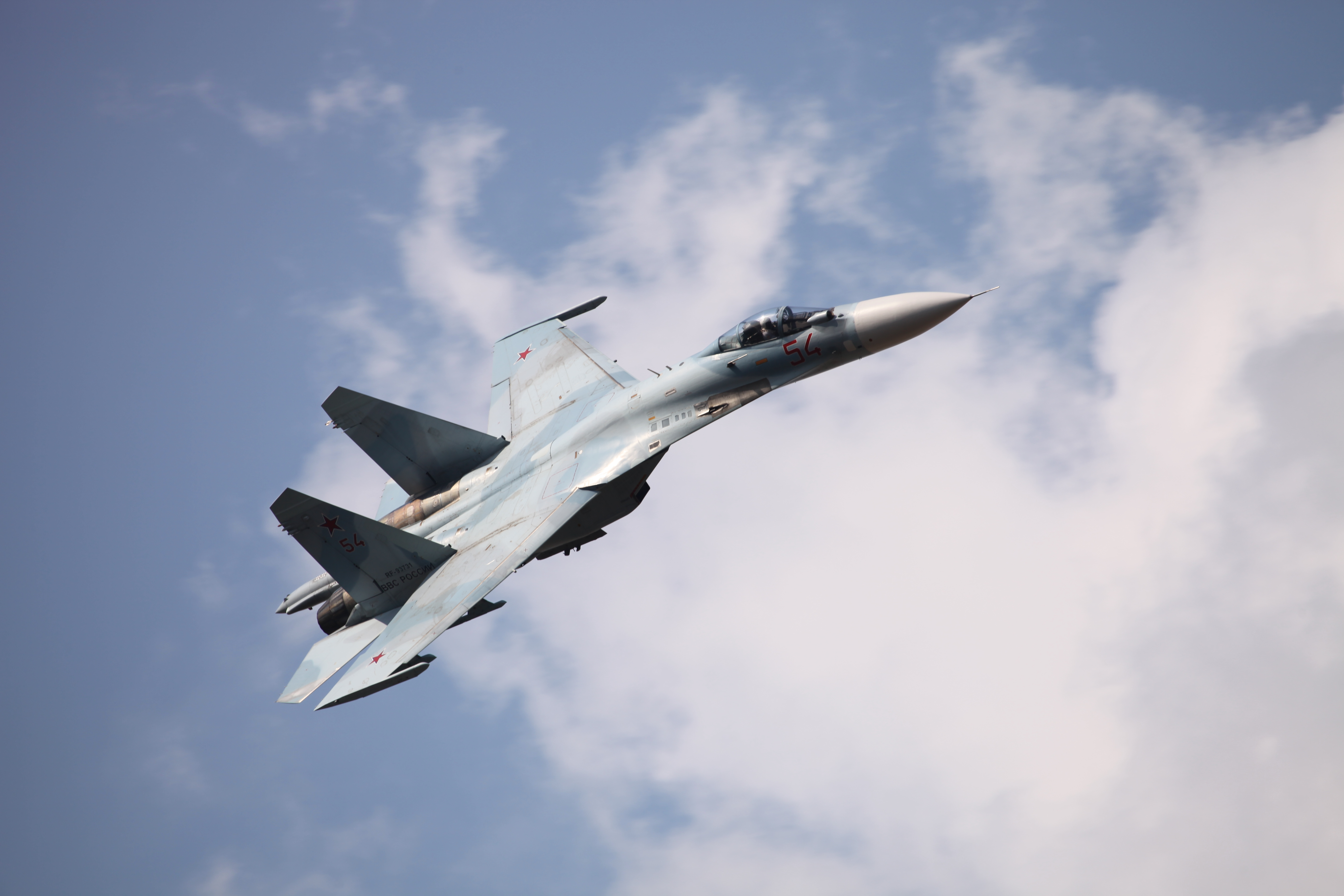 Aircraft at the Celebration of the 100th anniversary of Russian Air Force.